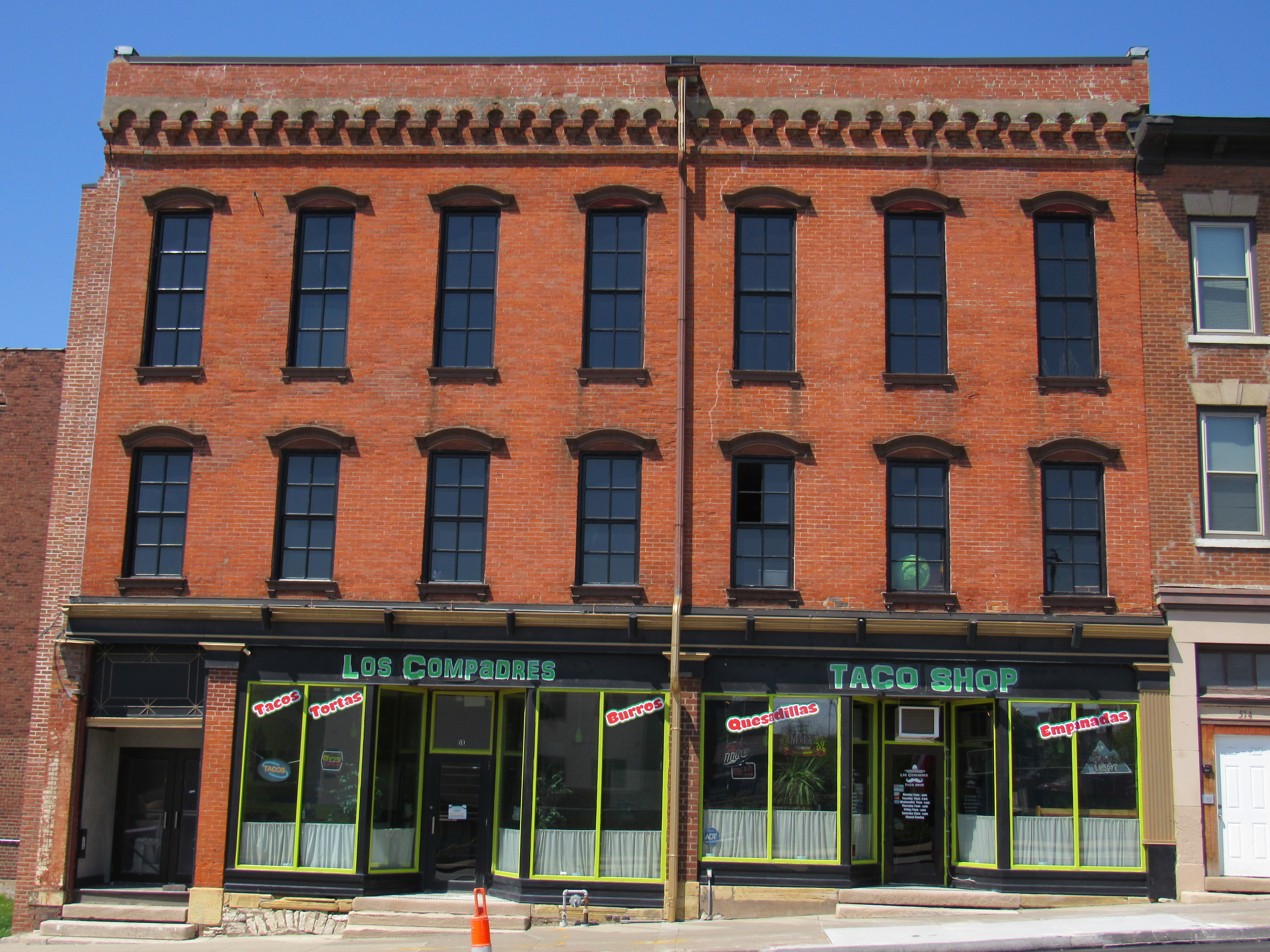 The Wupperman Block is located in downtown Davenport, Iowa, and is listed on the National Register of Historic Places. At one time the building housed an I.O.O.F. Hall.